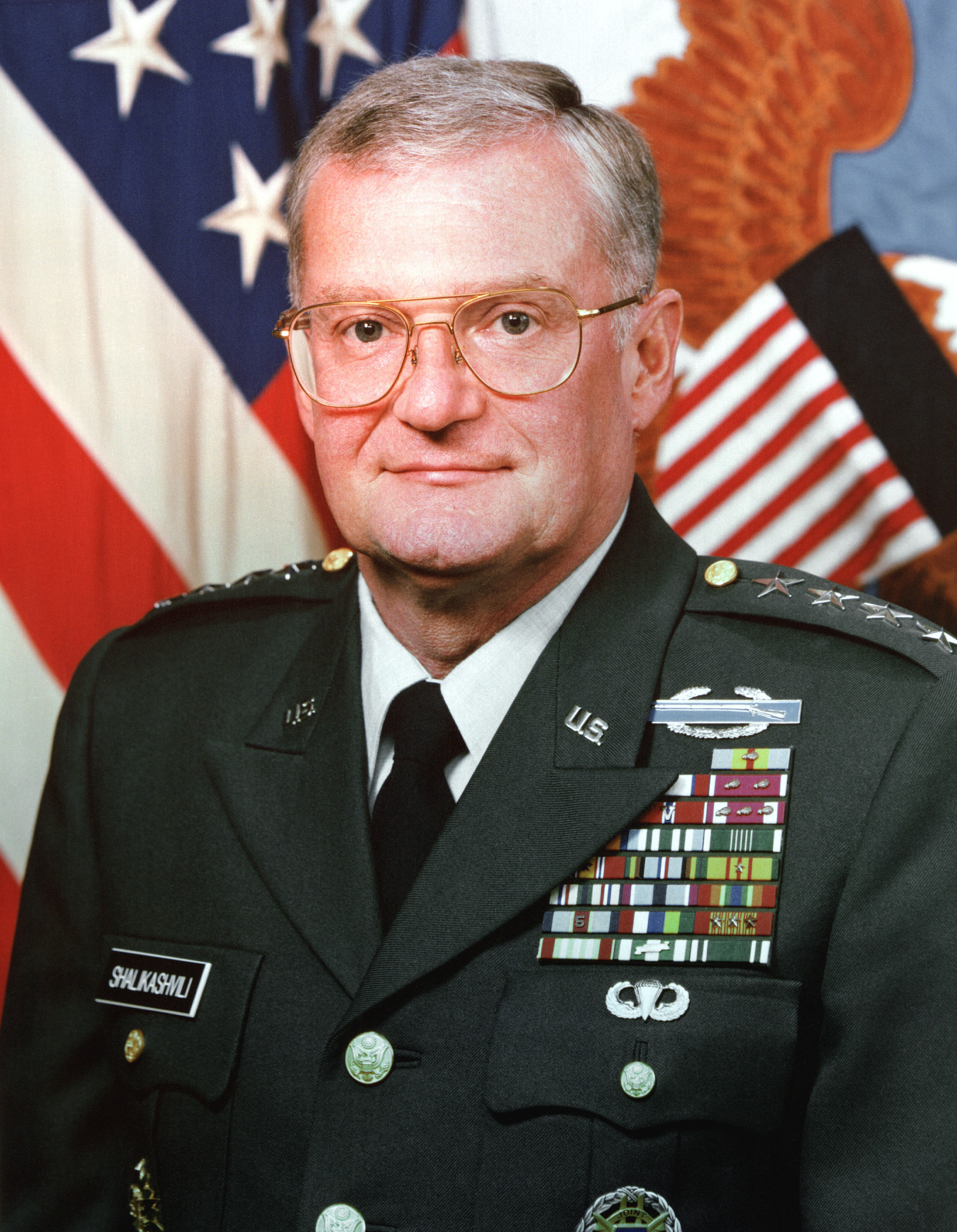 General John Shalikashvili. Date Shot: 6 Aug 1993.